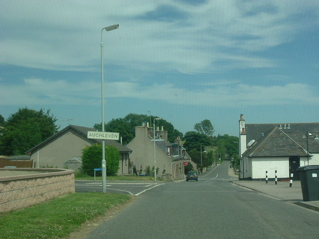 Auchleven Entry from Leslie